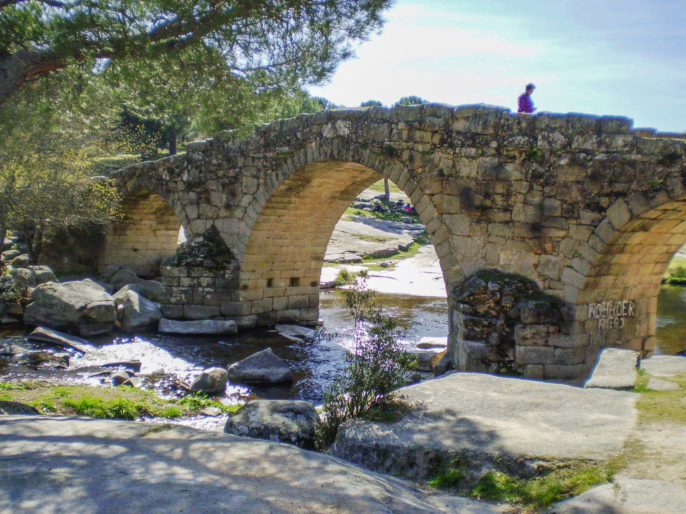 Mocha Bridge over Cofio River. Valdemaqueda. Community of Madrid, Spain